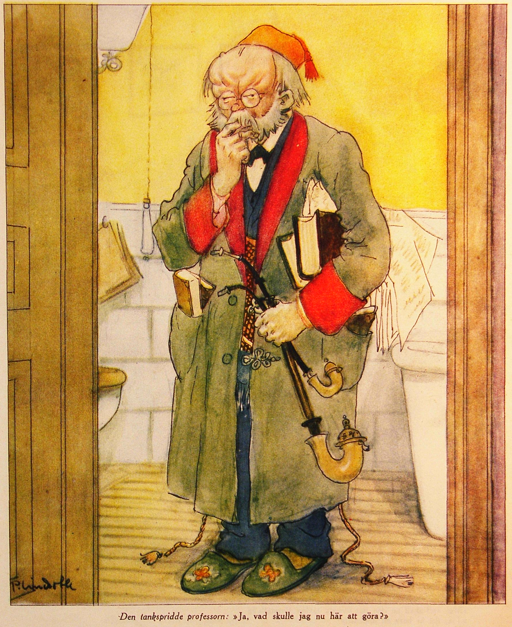 The Forgetful Professor